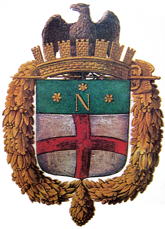 Coat of arms of Milan, First French Empire (9 January 1813)